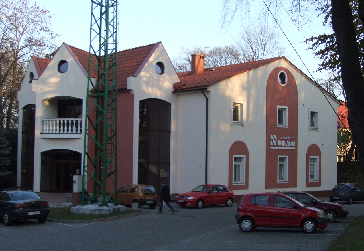 A building belonging to Radio Zachód, Zielona Góra, Poland